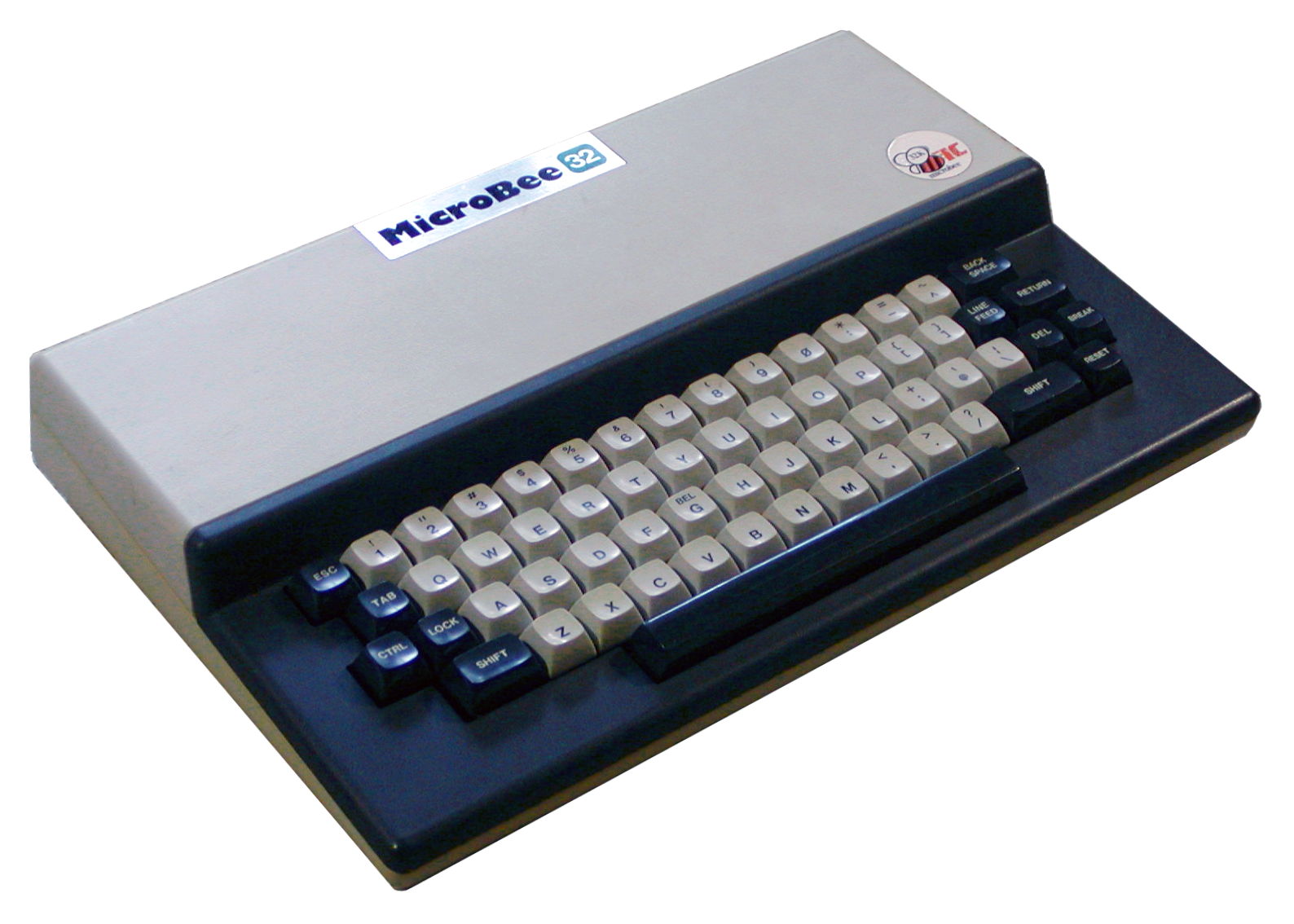 Inage of a Microbee 32K IC model computer.